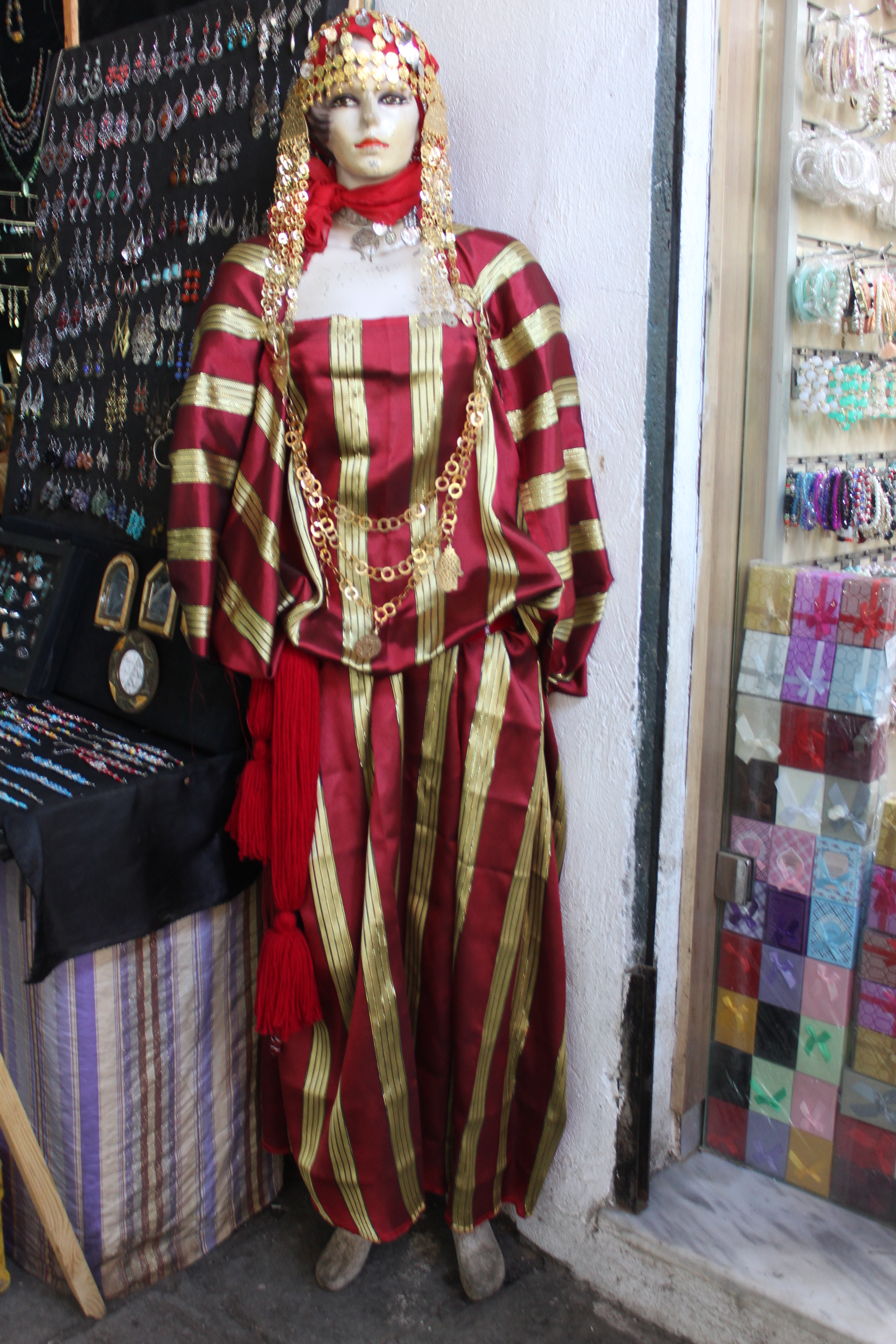 Tunisian traditional dress